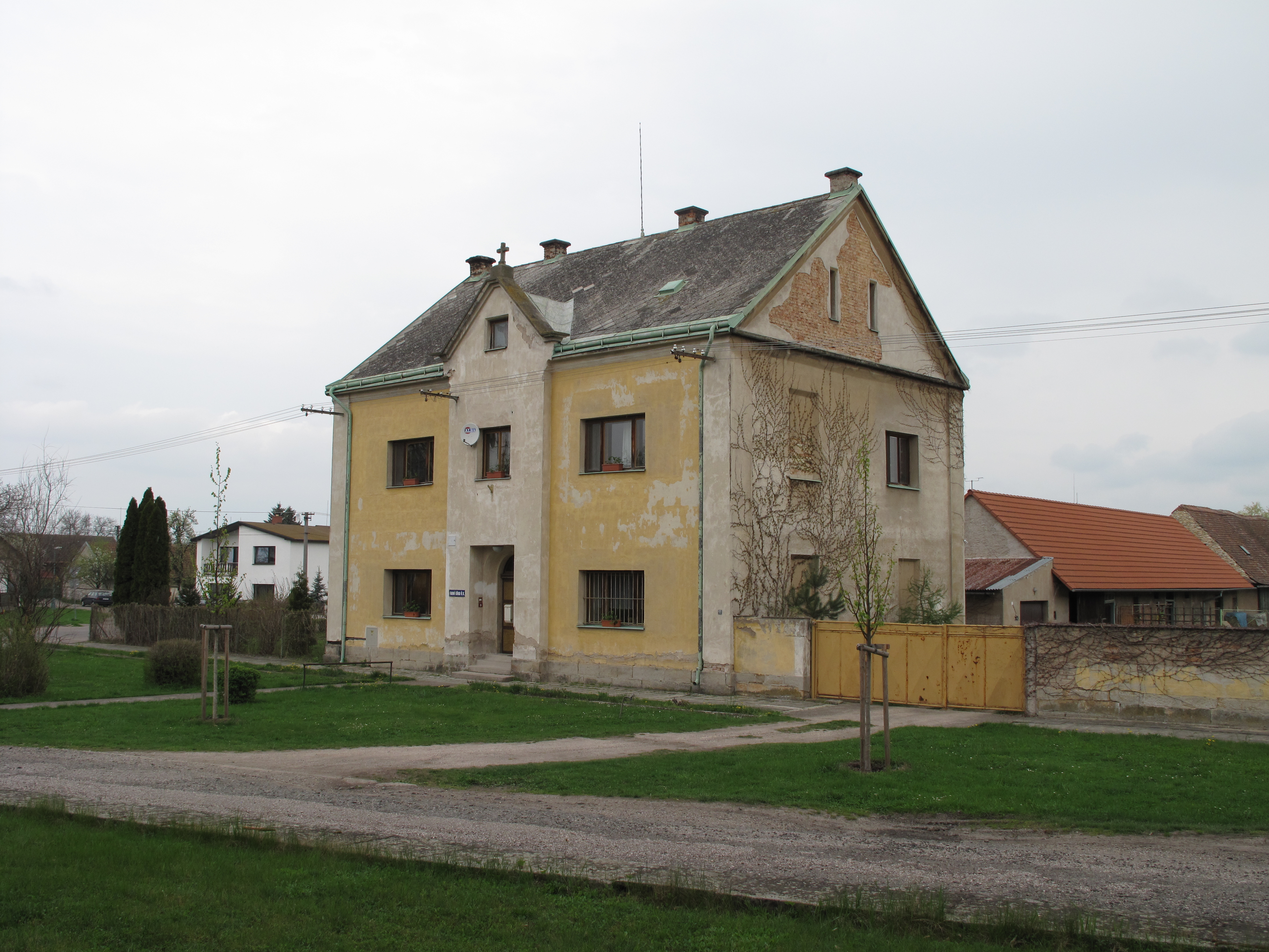 Rectory in Lovčice village, Hradec Králové District, Czech Republic.